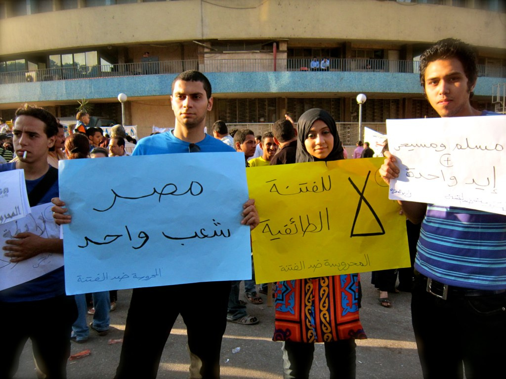 Egyptian Unity